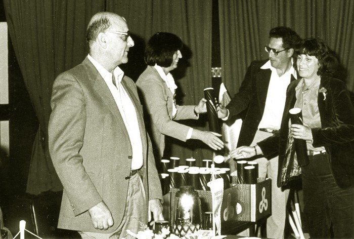 ציוני דרך האוניברסיטה הפתוחה